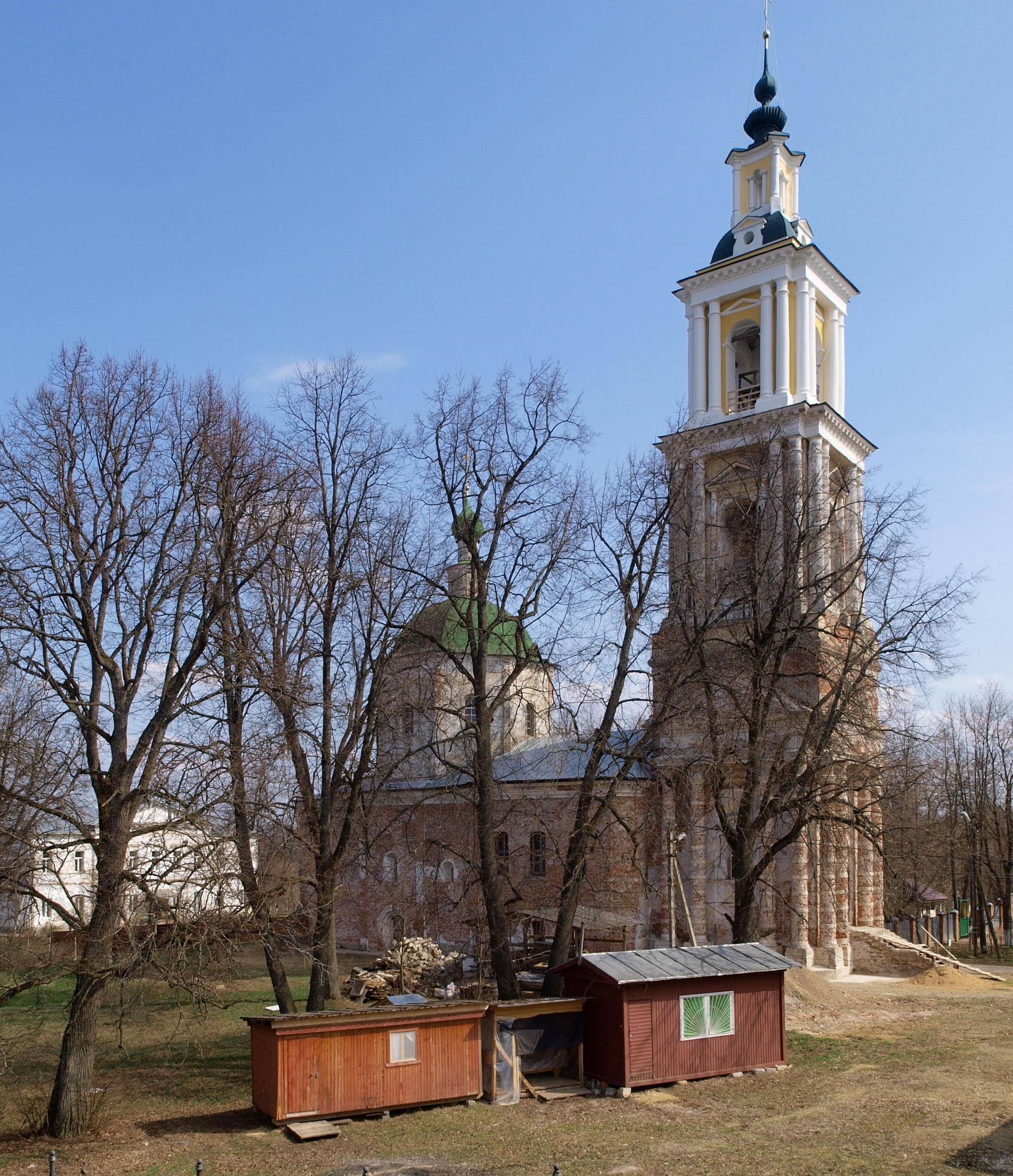 The Nativity Cathedral in Vereya.